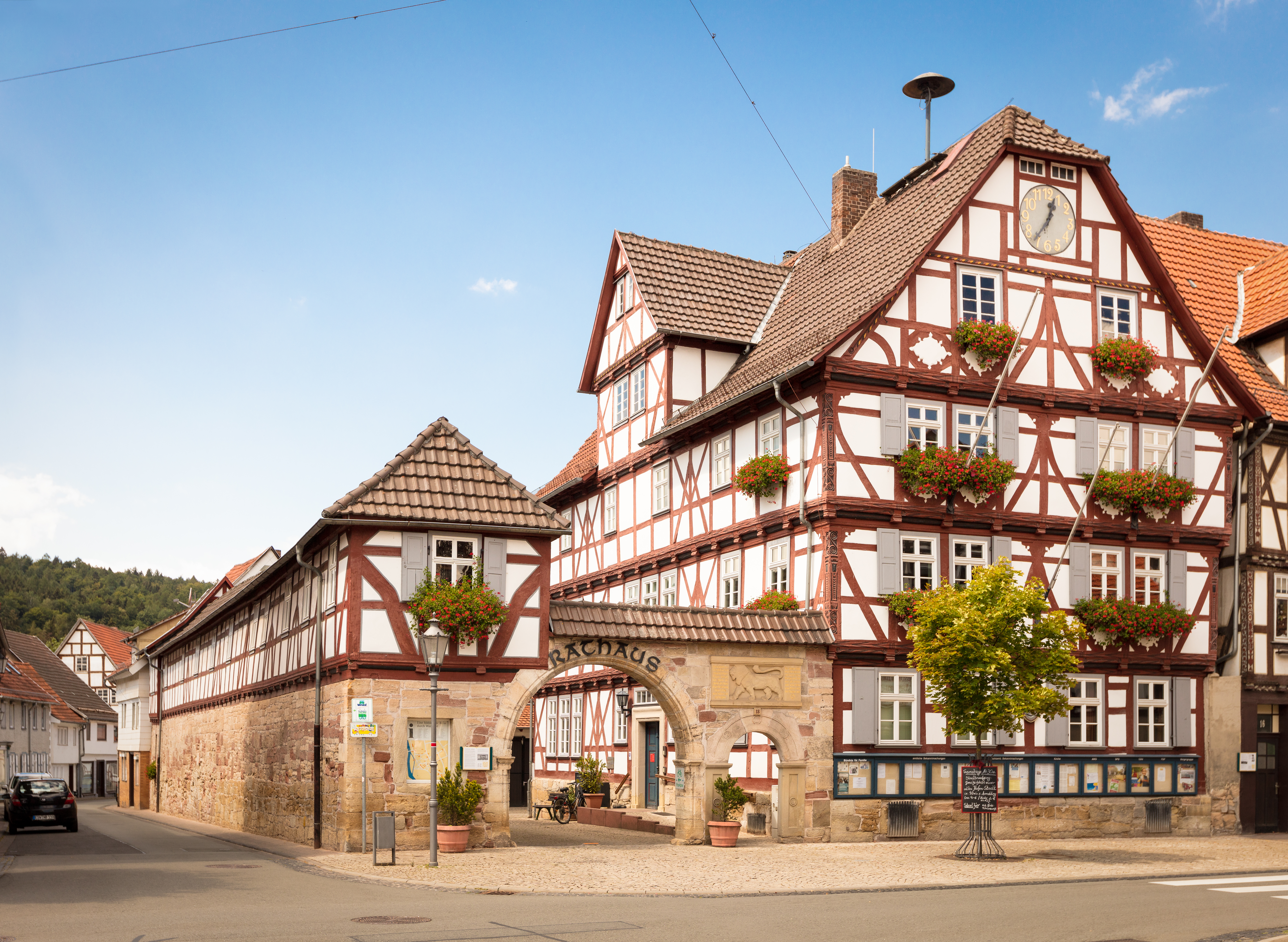 Wanfried town hall, Hesse, Germany.